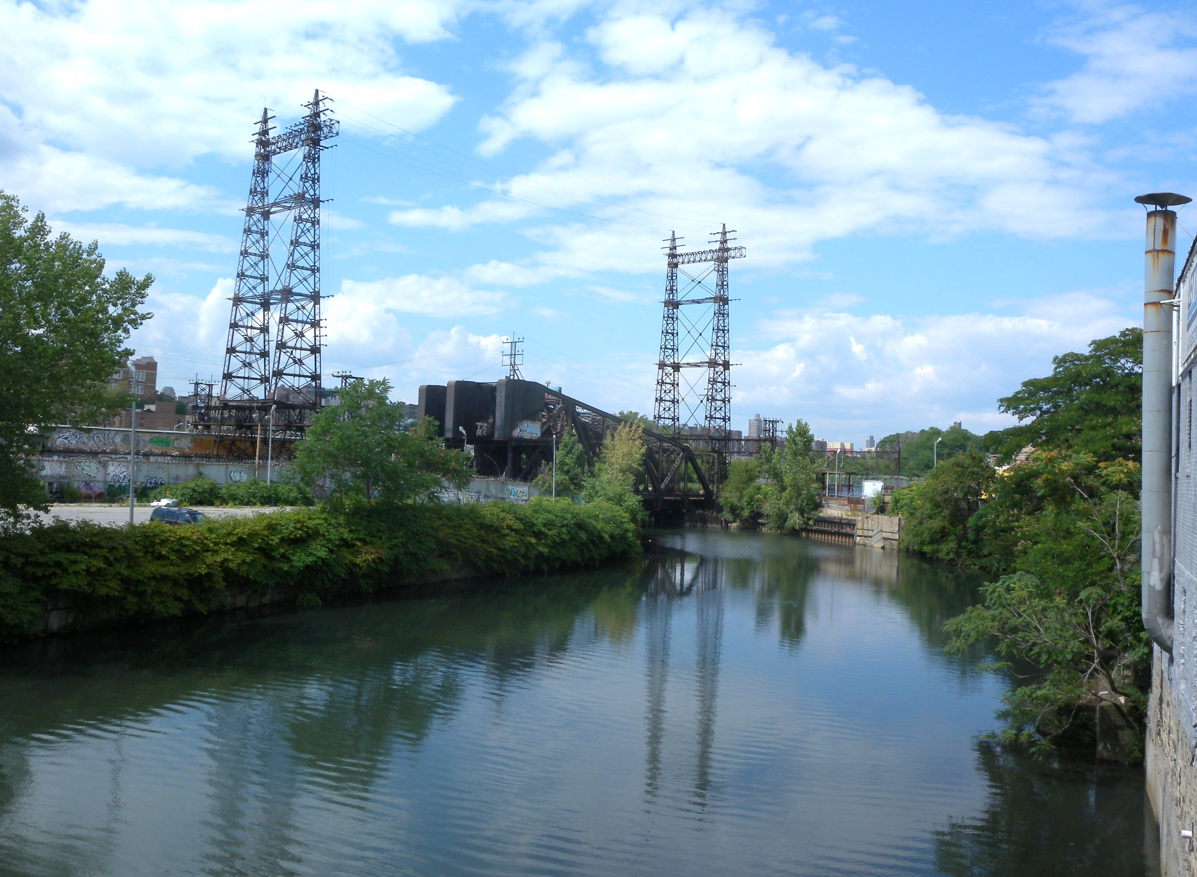 Looking north from Westchester Avenue bridge, at Amtrak drawbridge over Bronx River with power lines elevated for clearance, on a partly cloudy early afternoon. Line was originally owned by Harlem River & Port Chester RR.